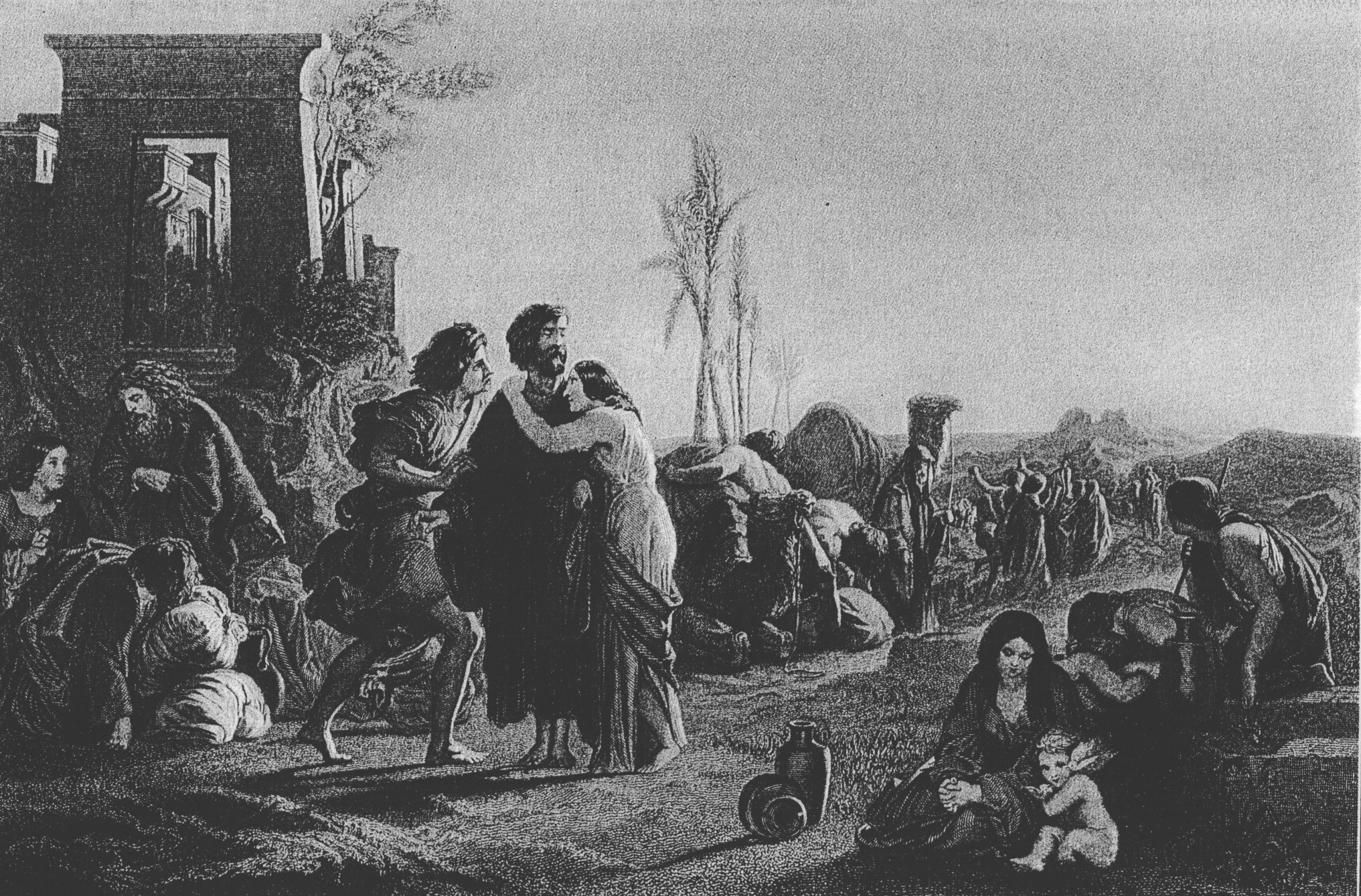 The Year of Jubilee, by Henry Le Jeune